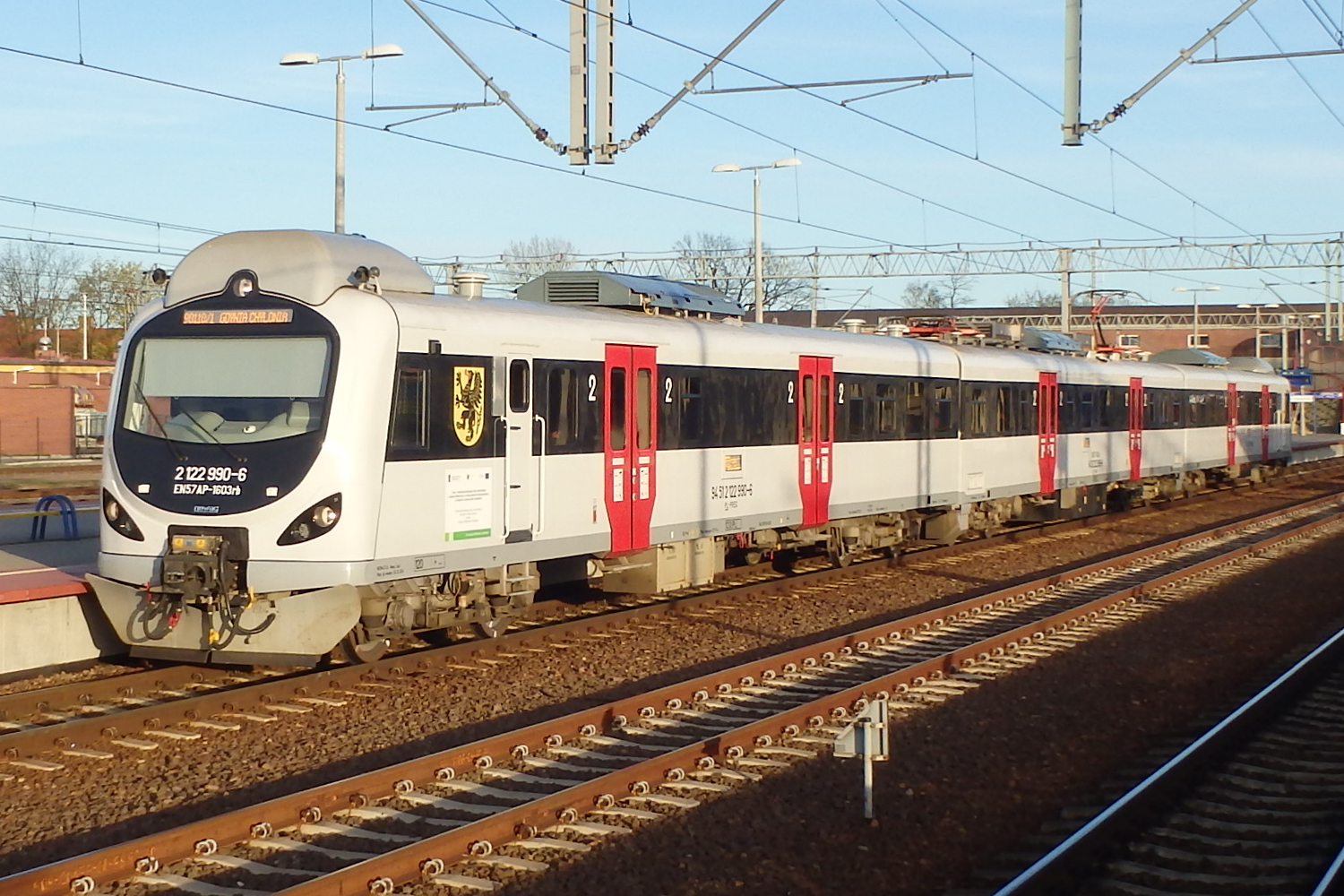 EN57AP-1603 EMU departing from Tczew towards Gdynia Chylonia as train R 90110/1 "Łyna" from Olsztyn.